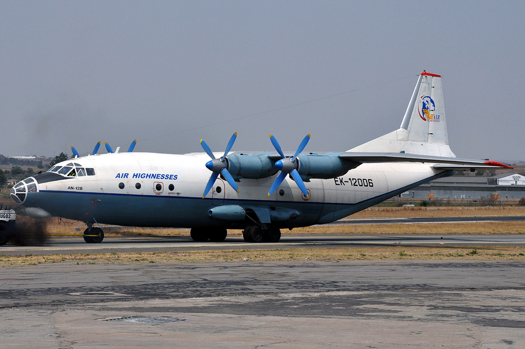 Air Highnesses Antonov An-12B Reg.: EK-12006 MSN: 01348006 Lanseria (HLA / FALA) South Africa - September 27, 2010 "Seen being towed from the main ramp to the hangar area, the tug was struggling a bit as can be seen from the black smoke. Great to find an An-12 at Lanseria, particularly in the colours of this little-known and intriguingly named Armenian/Russian operator. Ex UR-CGR, LZ-BRV and RA-11116 "